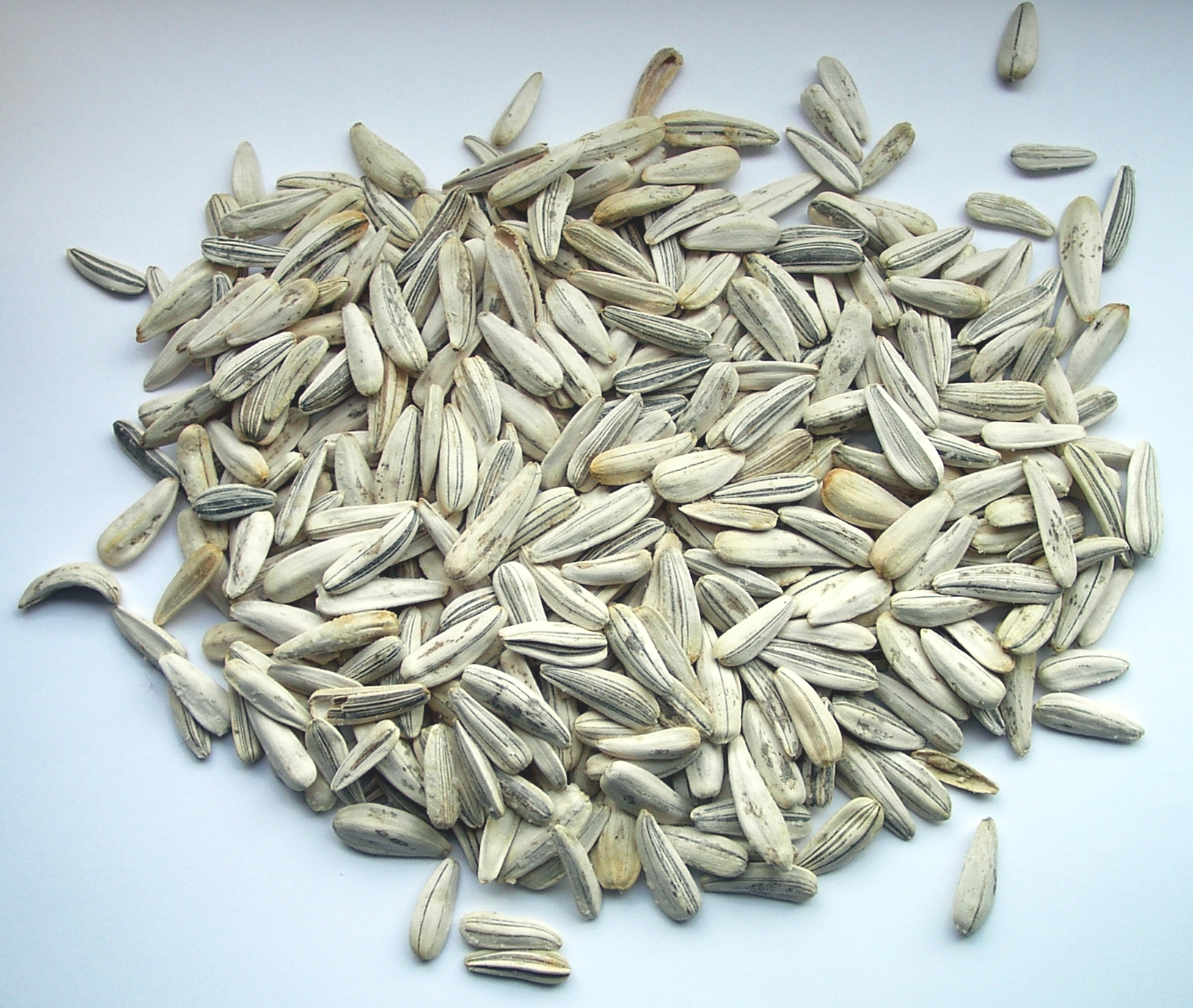 Roasted sunflower seeds